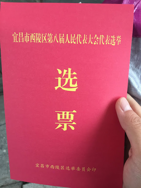 city level's election ballot of NPC